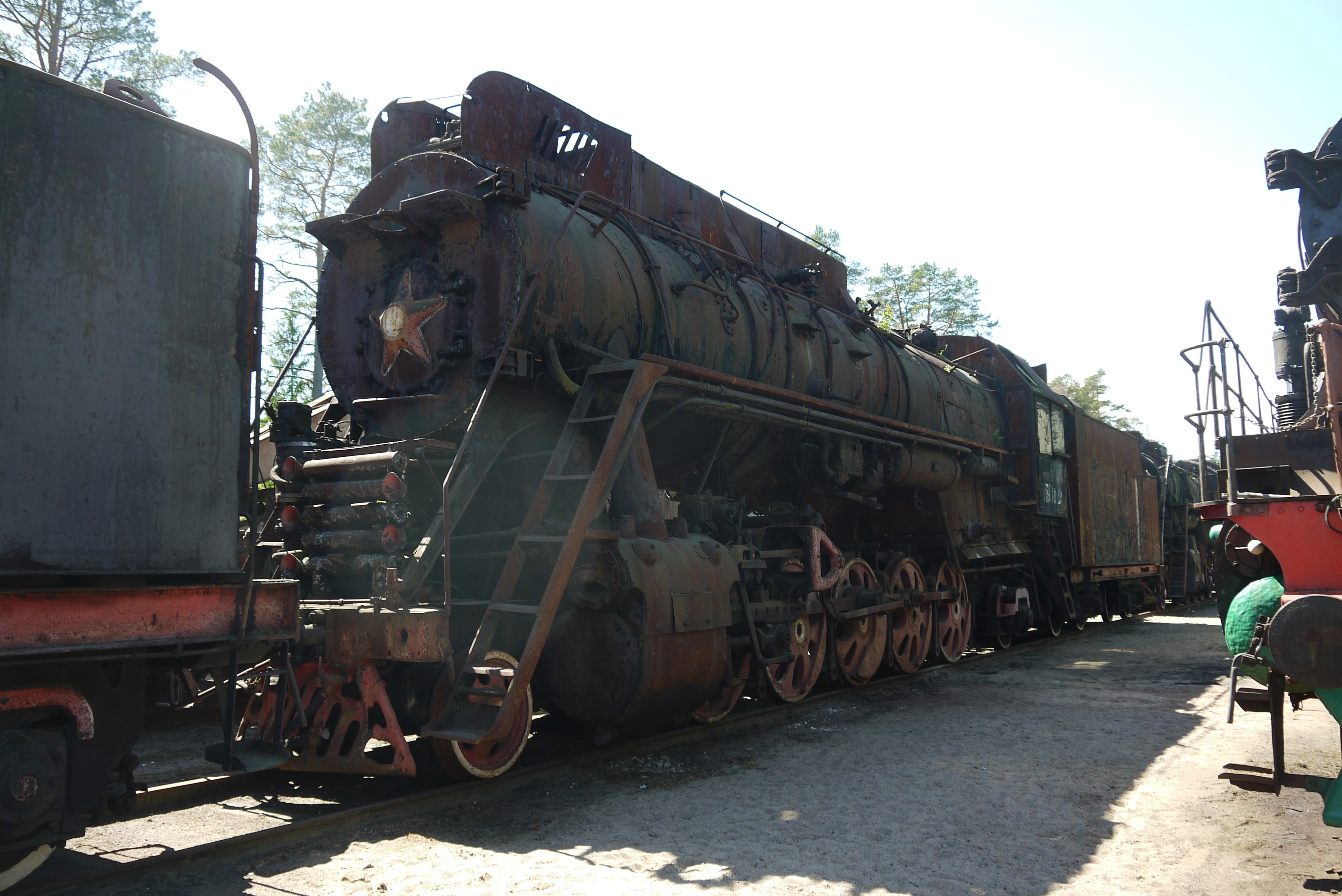 OR18-01 at Lebyazhye Railway Museum, Leningrad Oblast, Russian Federation. The first Soviet CLas LV Locomotive